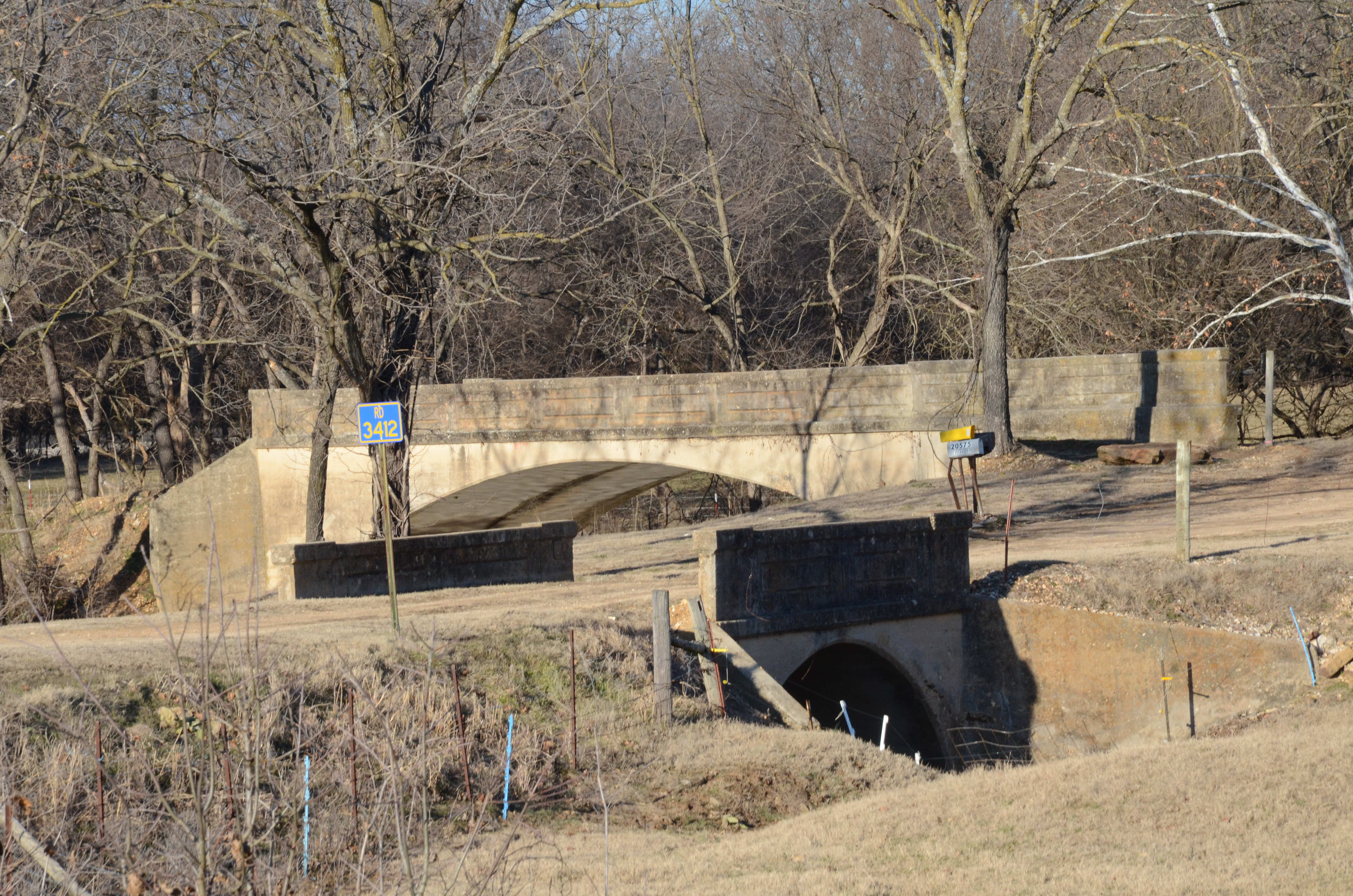 Twin Bridges Historic District, County Road 3412 across an unnamed creek and Old County Road 11 across Baron Fork Morrow